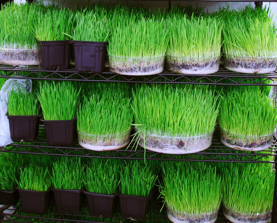 Wheatgrass